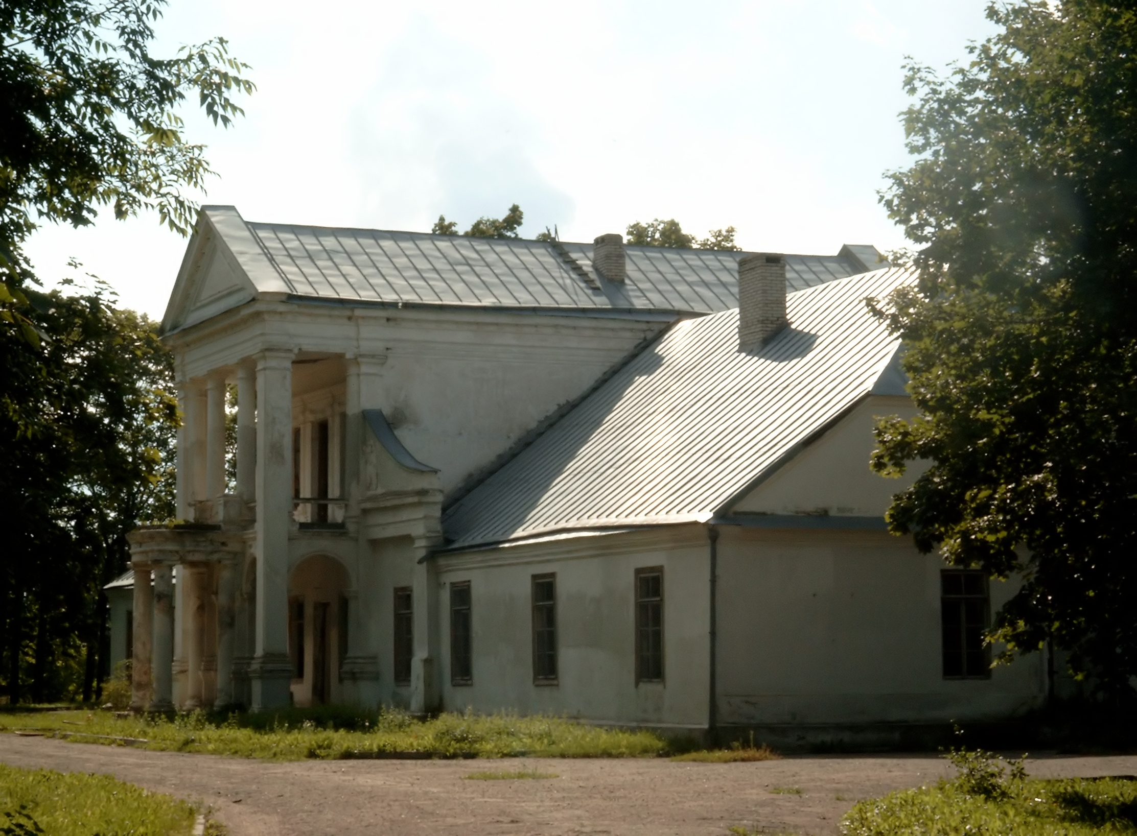 Беларуская (тарашкевіца): Былая сядзіба:сядзібны дом в. Падароск This is a photo of Belarusian heritage monument. Reference number: 412Г000113 ( WLM)